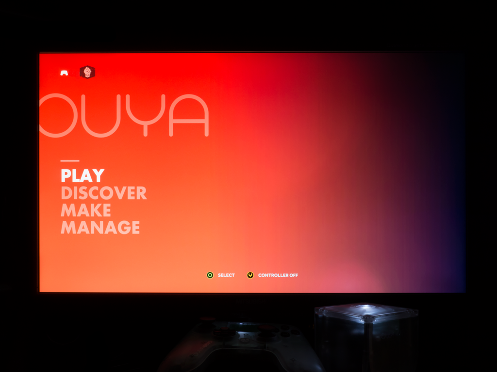 OUYA Main Menu